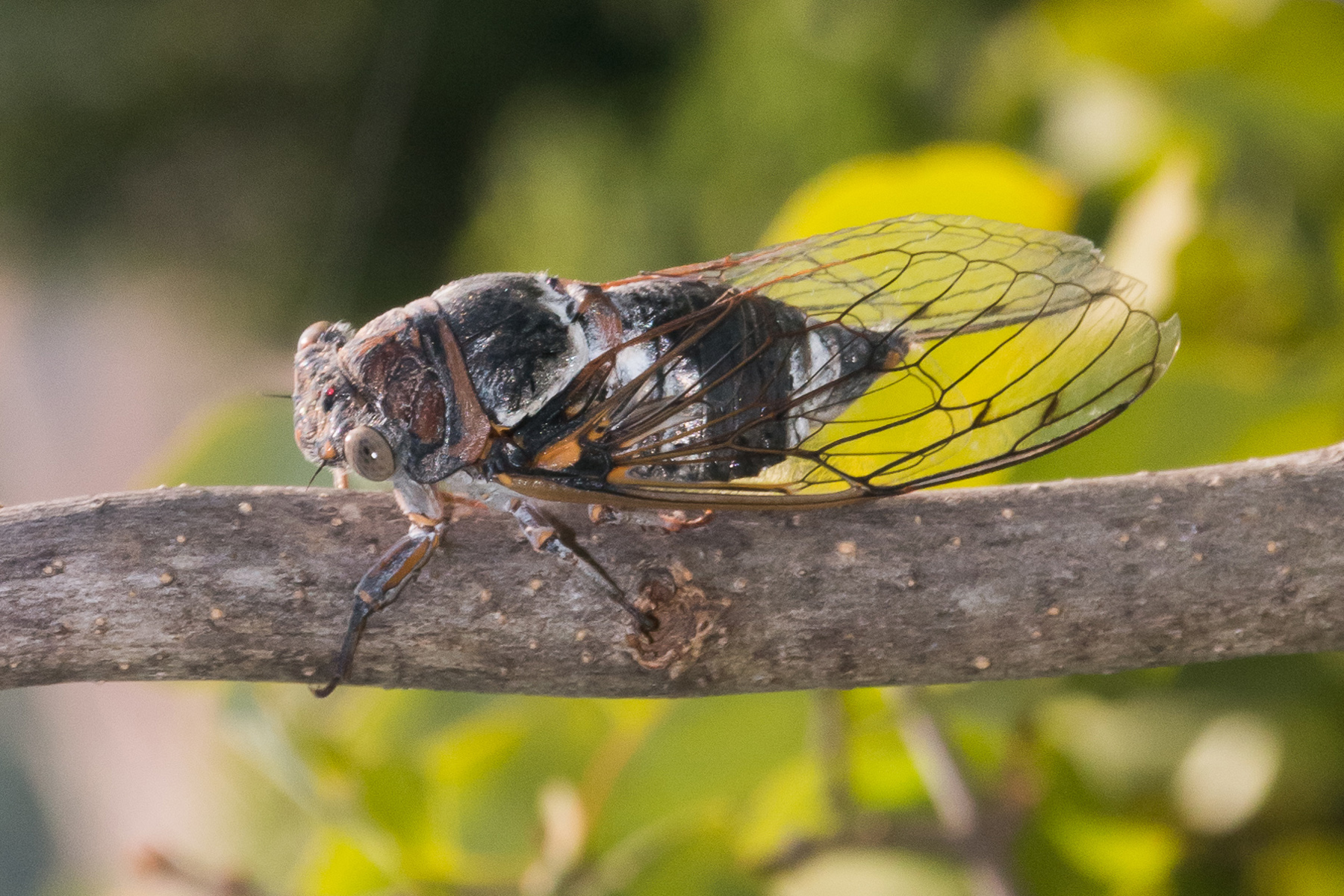 Jarfly, Cicada barbara, common in the South of the France.